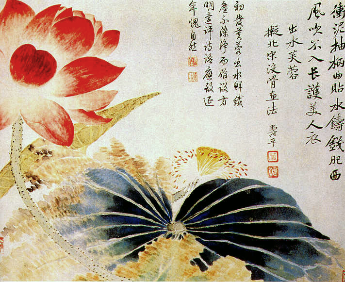 Lotus Flower Breaking the Surface, Yun Shouping, Qing Dynasty, China, Palace Museum, Beijing.